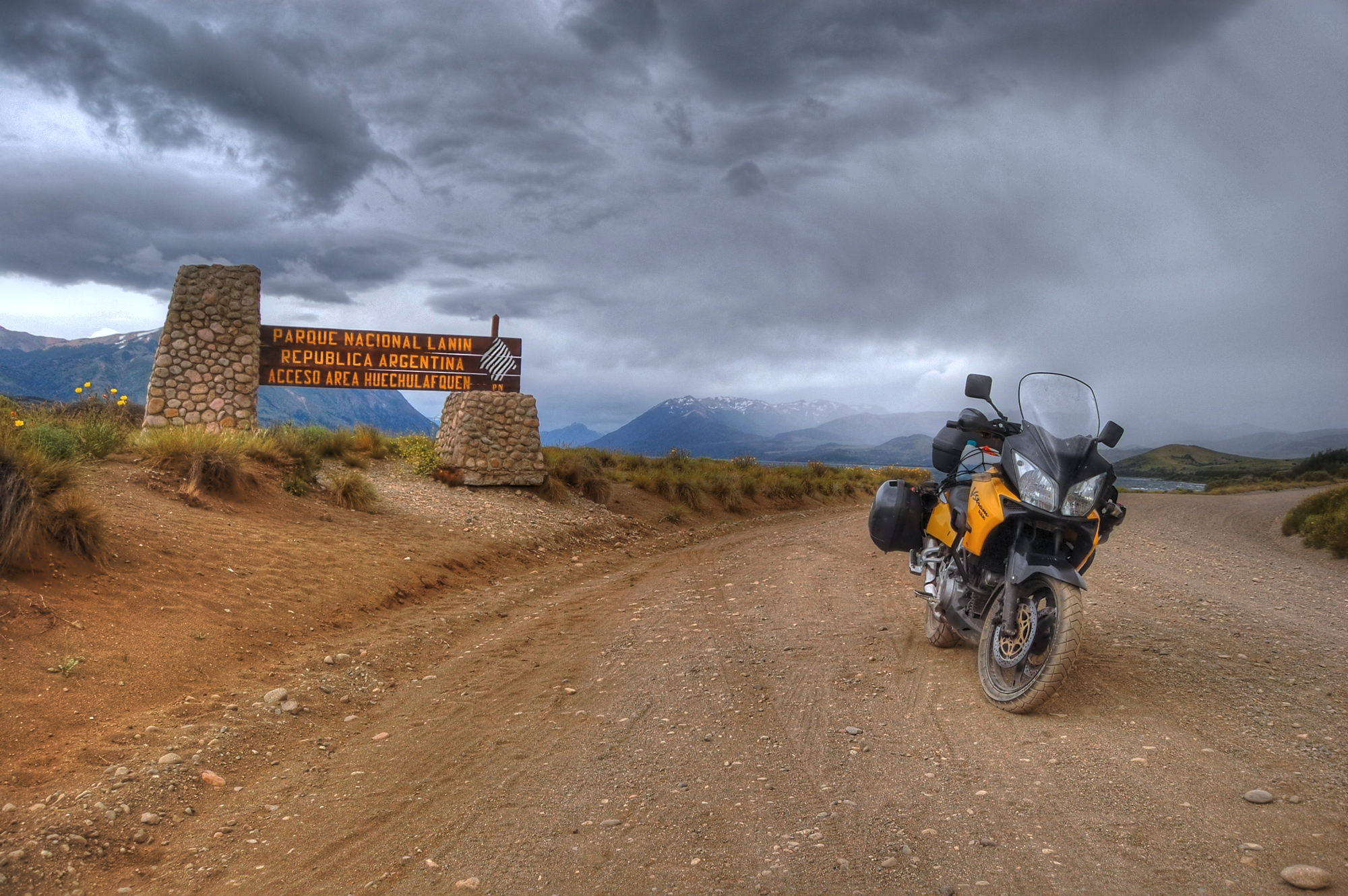 Lanín National Park